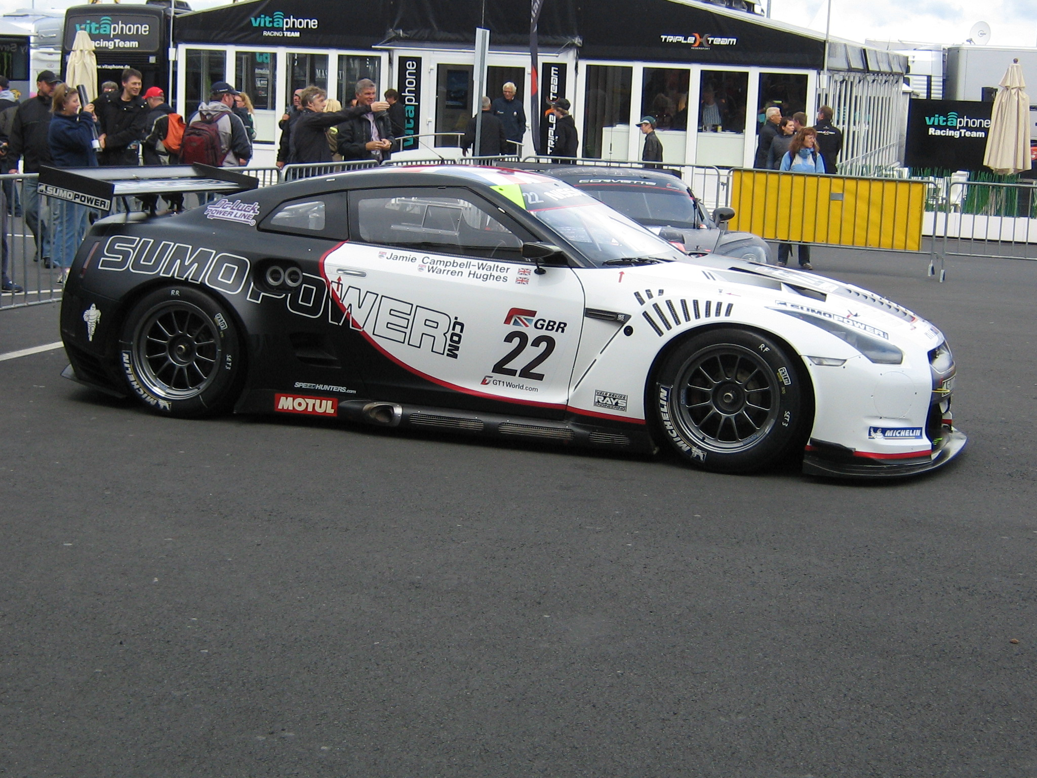 The Nissan GT-R from the FIA GT-1 World Championship